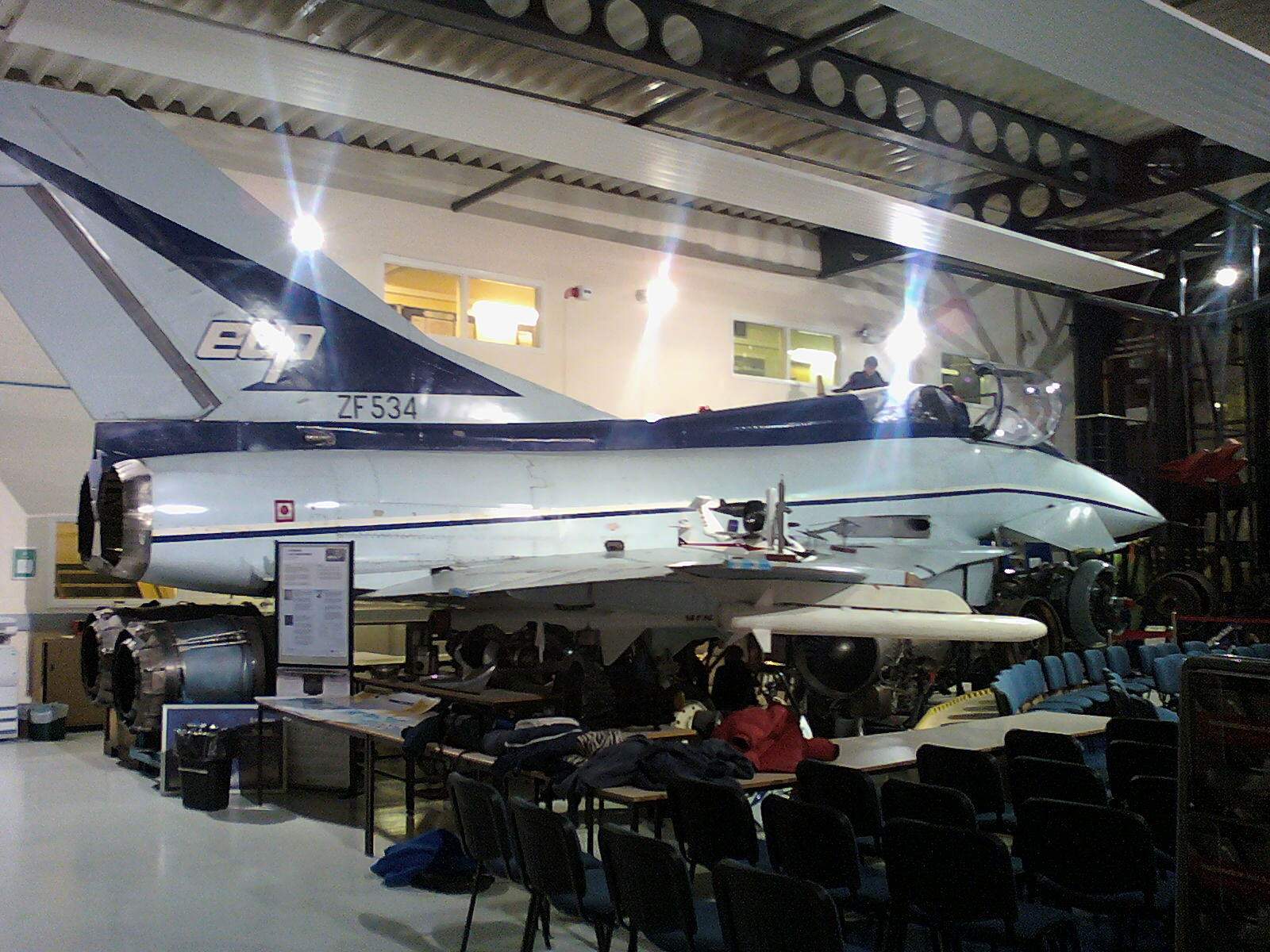 BAE EAP at Loughborough Uni, copyright picture of Charlie Pearson